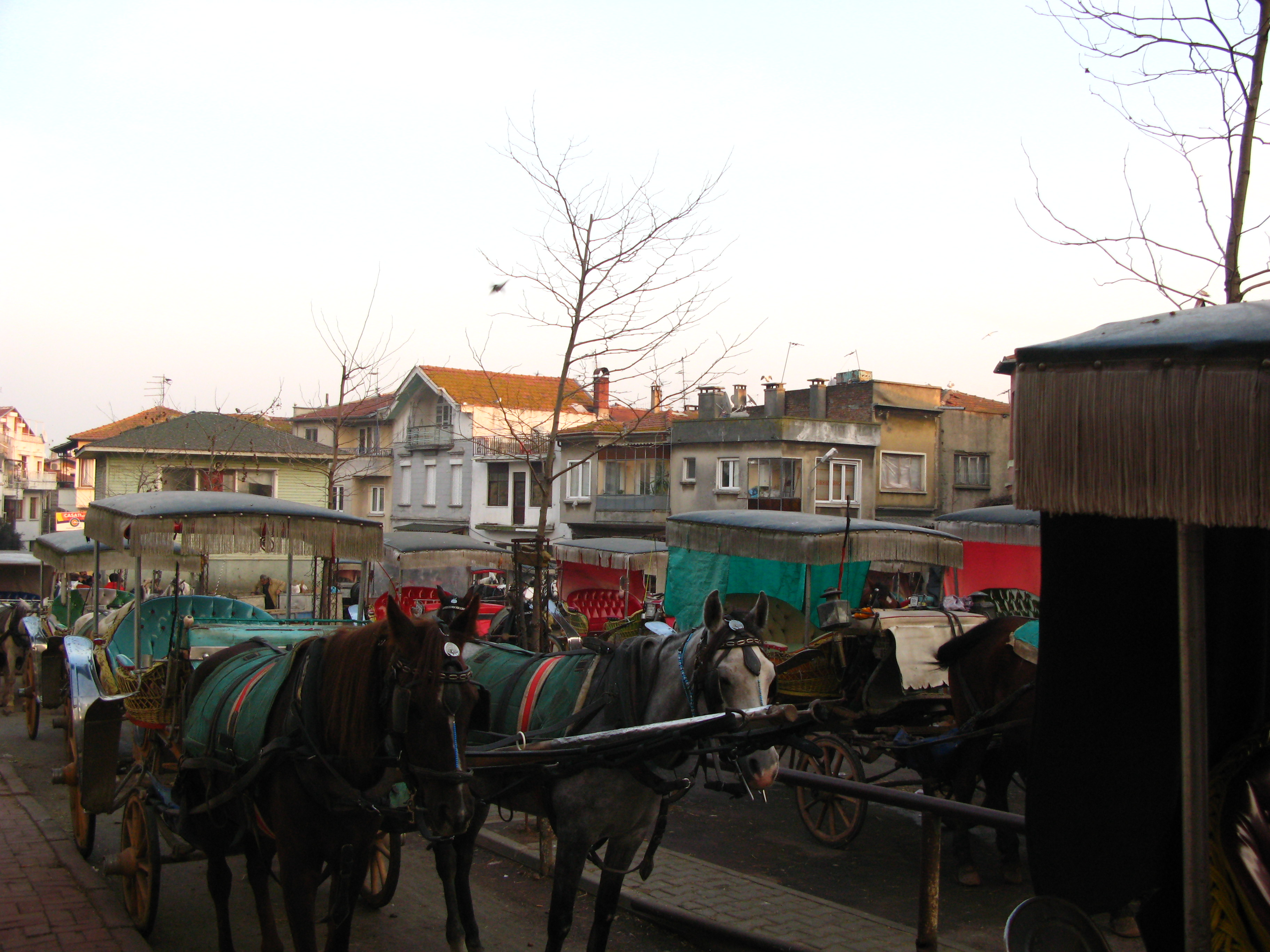 Traditional horse-drawn carriages offering transportation in Büyükada